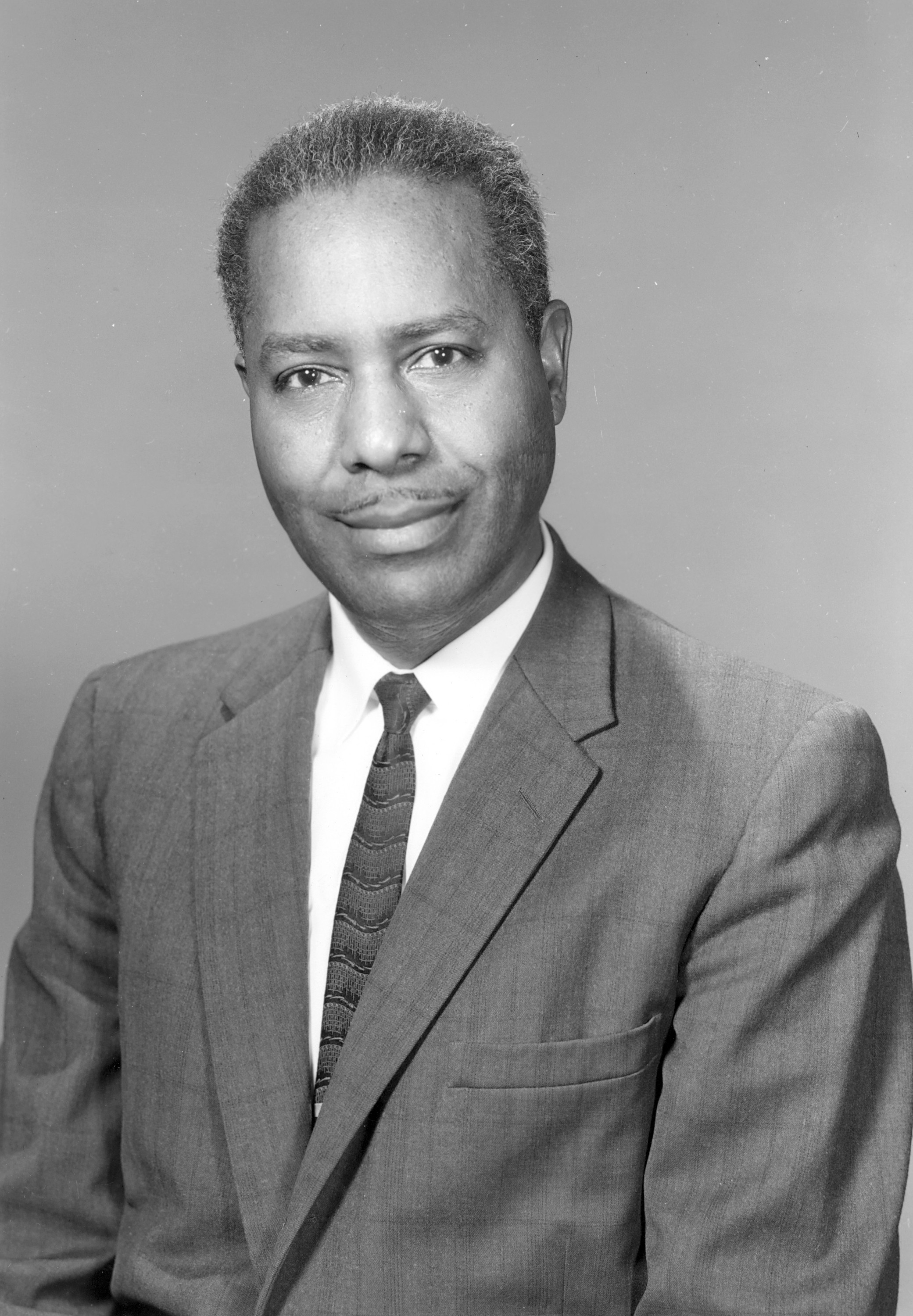 This image of Walter McAfee is credited to the US Army, for whom McAfee worked for 42 years as a scientist from 1942 to 1985. This image was published by the US Army and used for his posthumous induction into the U.S. Army Materiel Command's Hall of Fame in 2015.